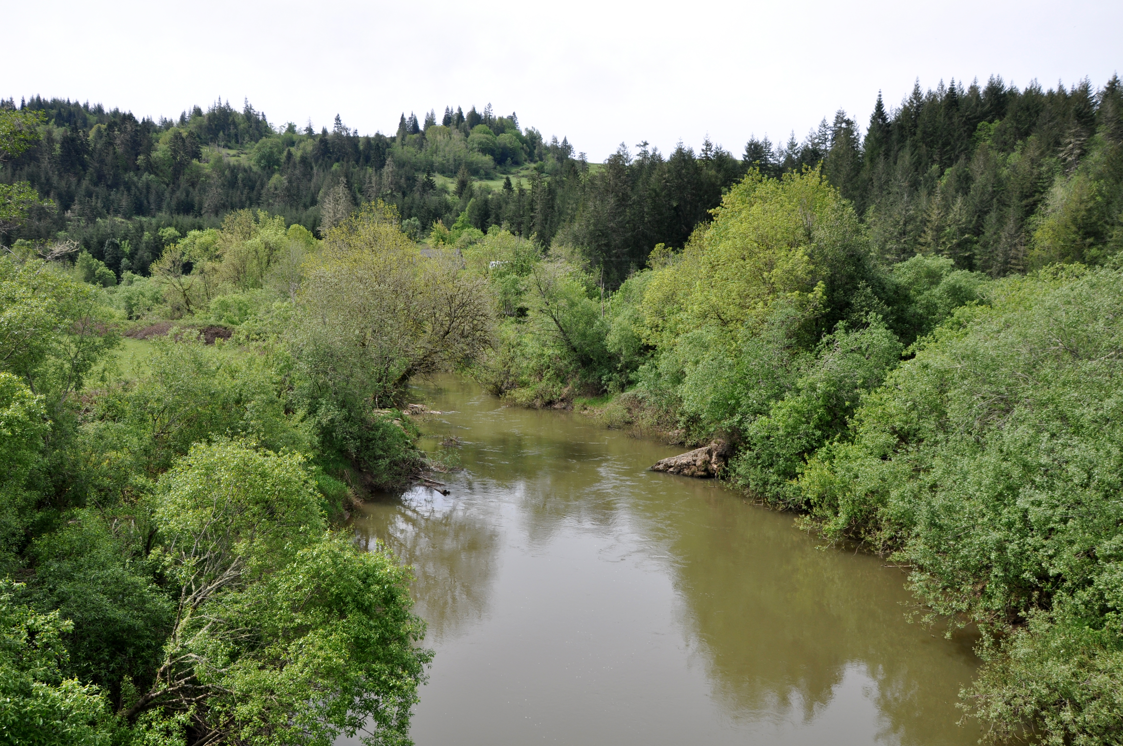 North Fork Coquille River upstream of the city of Myrtle Point in the U.S. state of Oregon. View is upstream from a bridge carrying Sitkum Lane over the river.